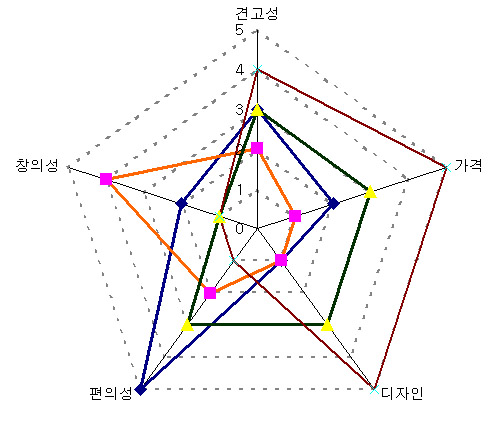 Radar chart sample